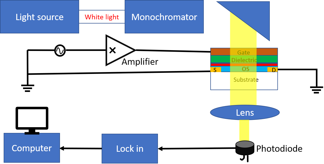 Block diagram of charge modulation spectroscopy(CMS) setup. Here the photo diode measures the transmission. A DC plus AC signal is applied to the OFET, the AC will be as the reference frequency for the Lock-in Amplifier